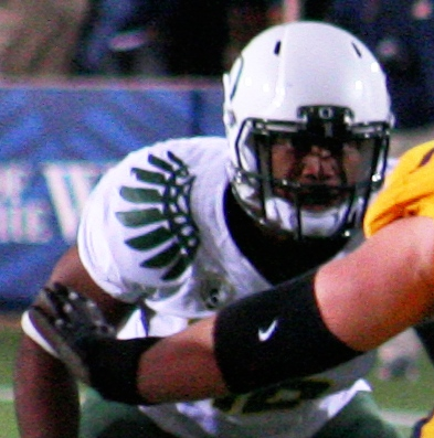 Shane Vereen takes a handoff in the Cal vs Oregon college football game on Nov. 13, 2010